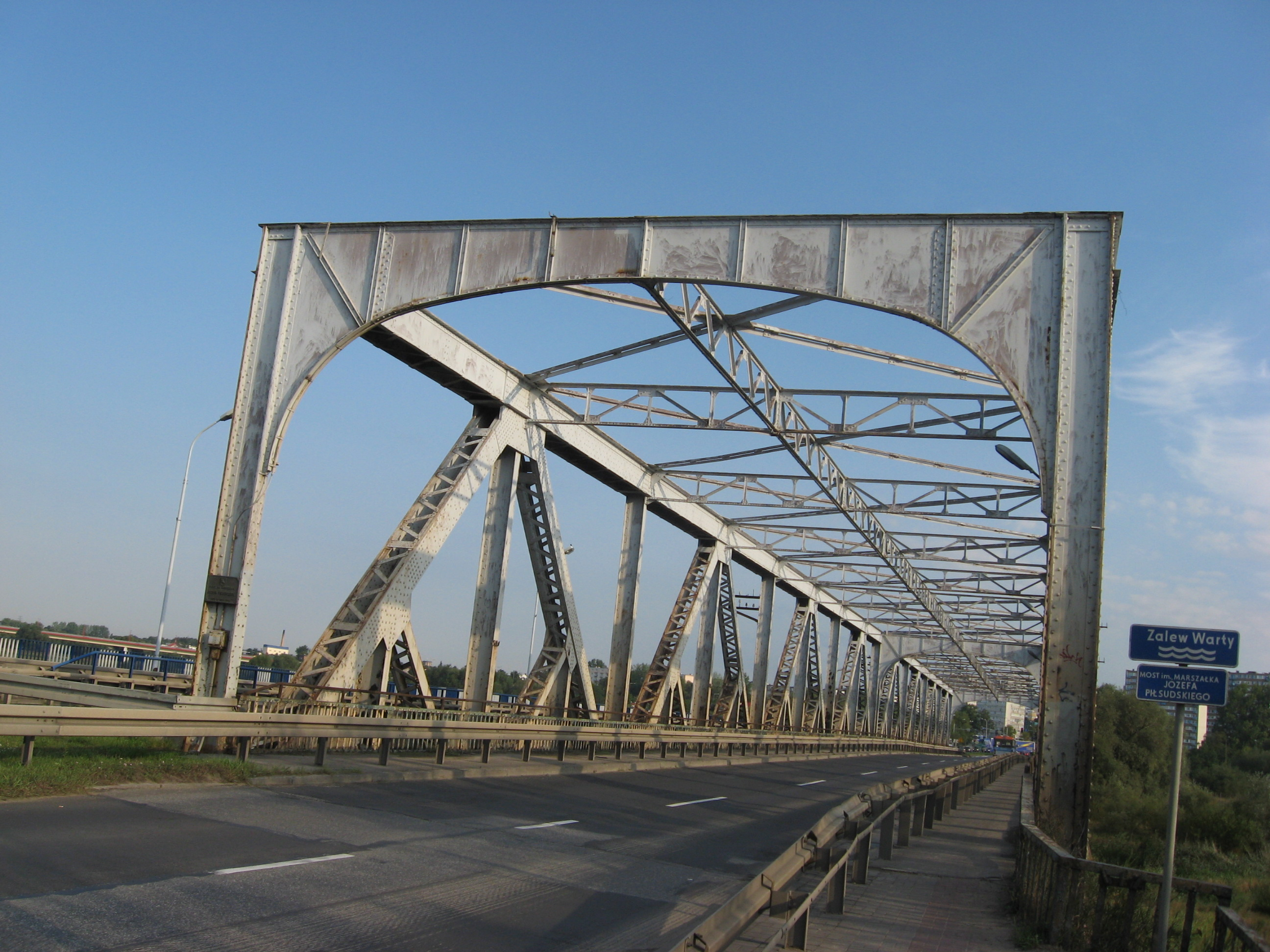 Konin - Józef Piłsudski bridge.